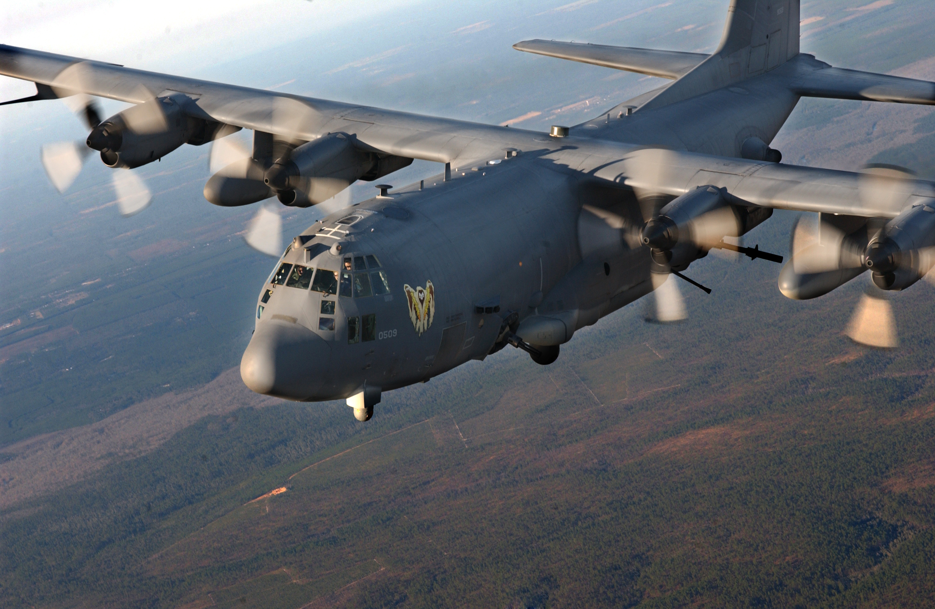 An AC-130U Spooky Gunship of the 4th Special Operations Squadron, Hurlburt Field, Florida, flies over surrounding areas for local area training proficiency.